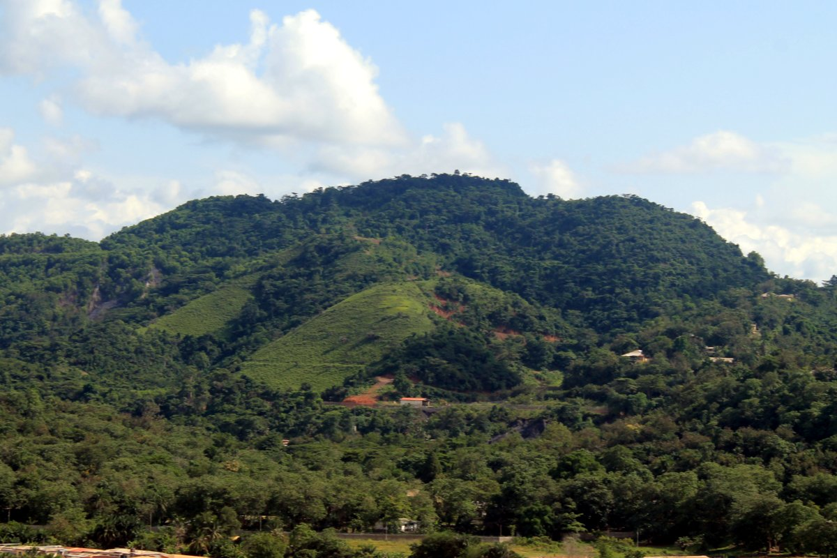 A session of the hills surrounding the Obuasi Sports Club area. At the foot of this hill is the Anglo-gold Ashanti Hospital, Obuasi